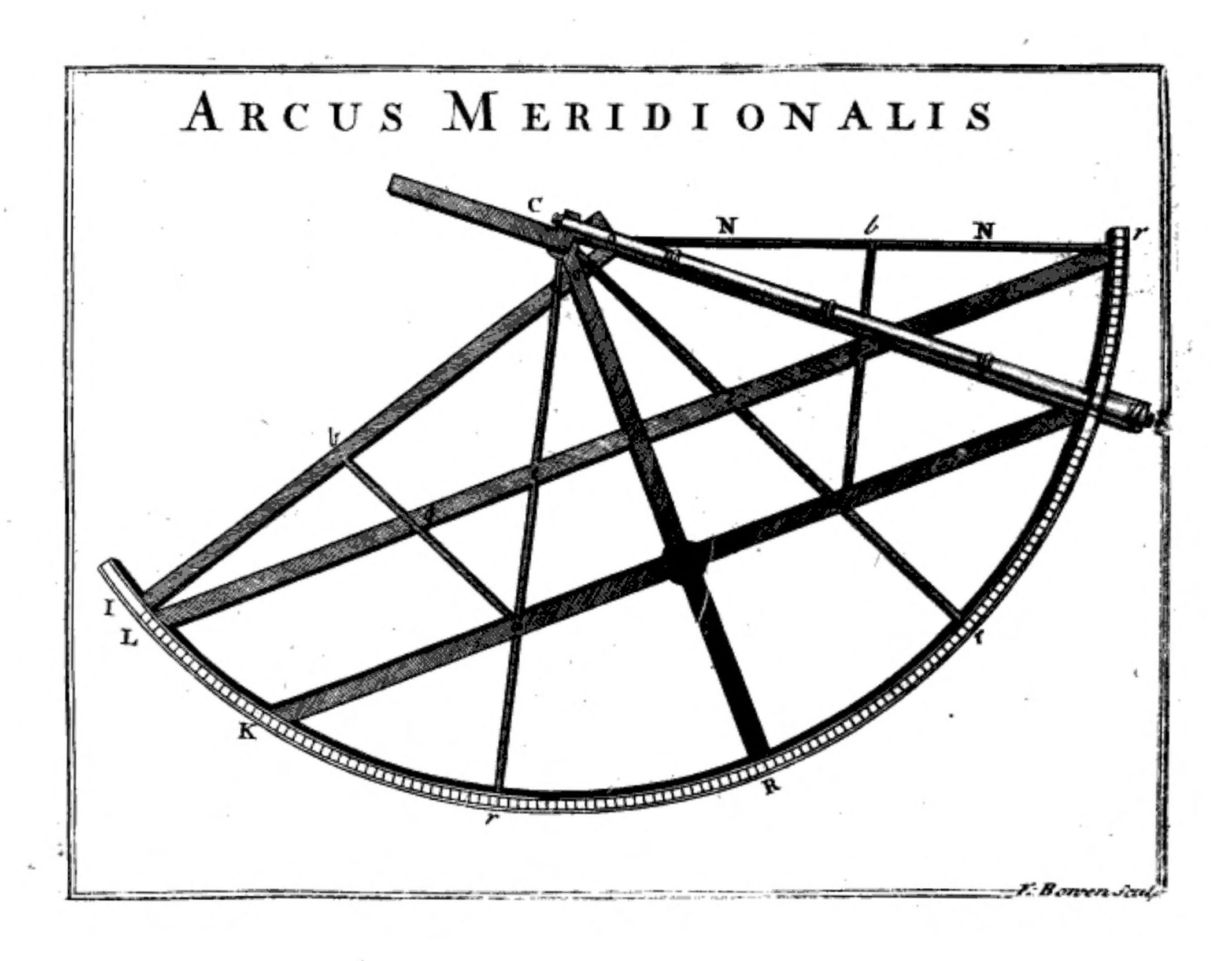 John Flamsteed's arcus meridionalis. From Historia Coelestis